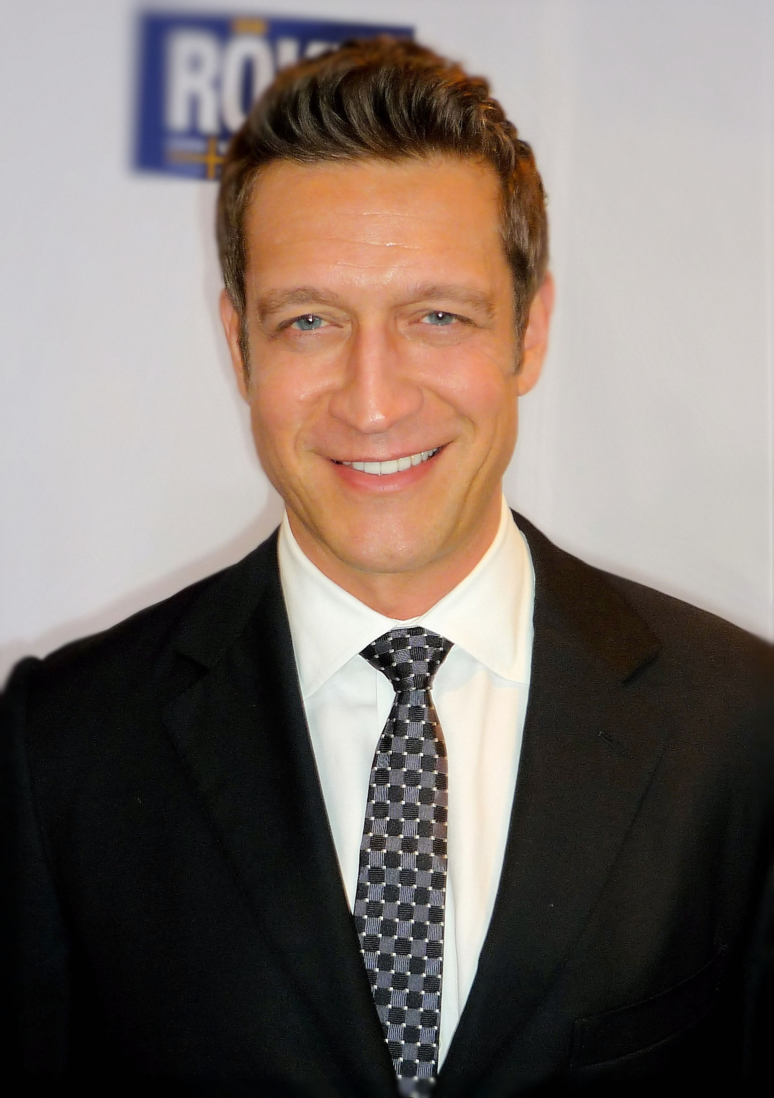 Robert Gant at GLAAD Media Awards